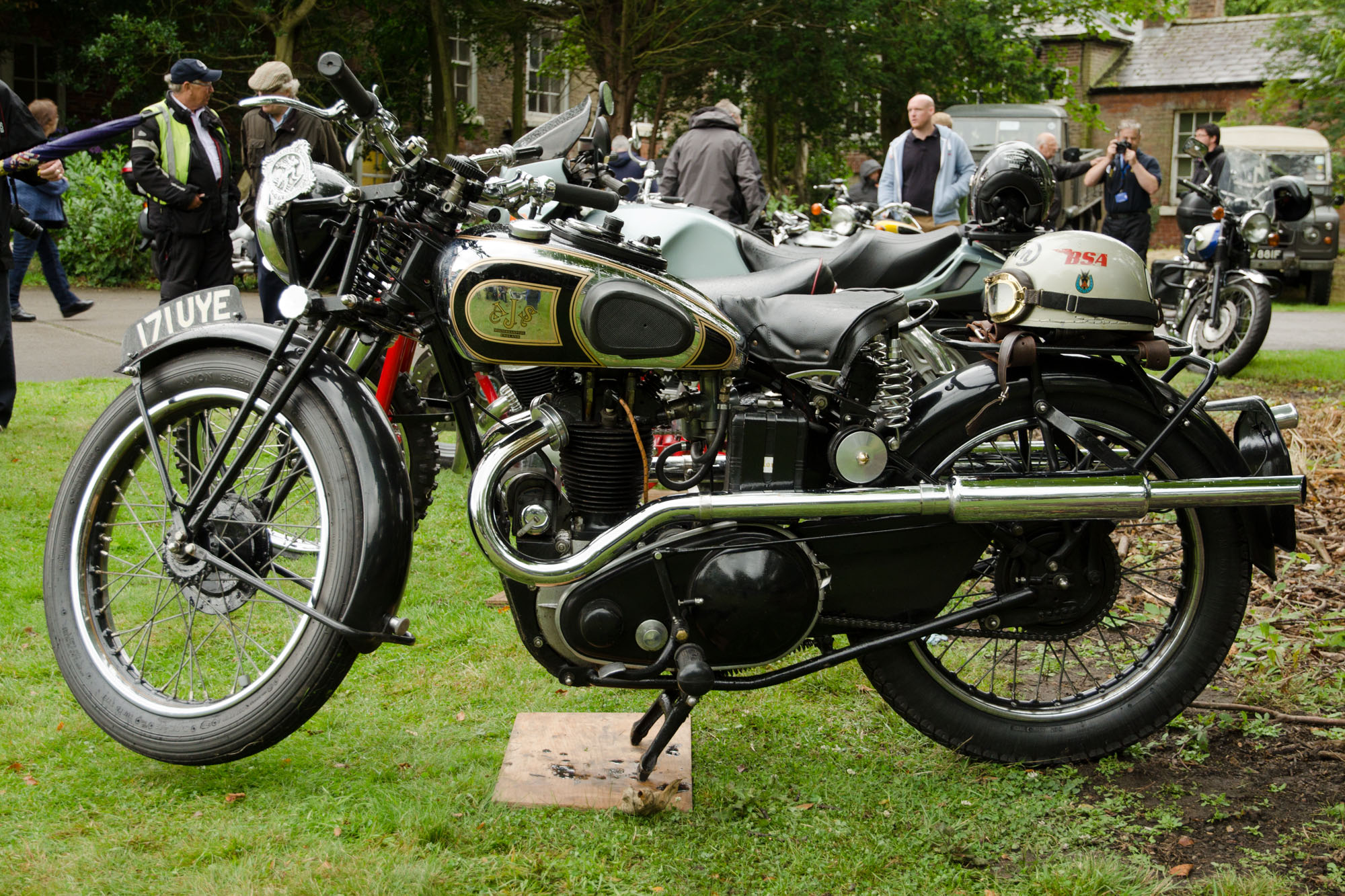 Lytham Hall Classic Car Show 03/08/2014